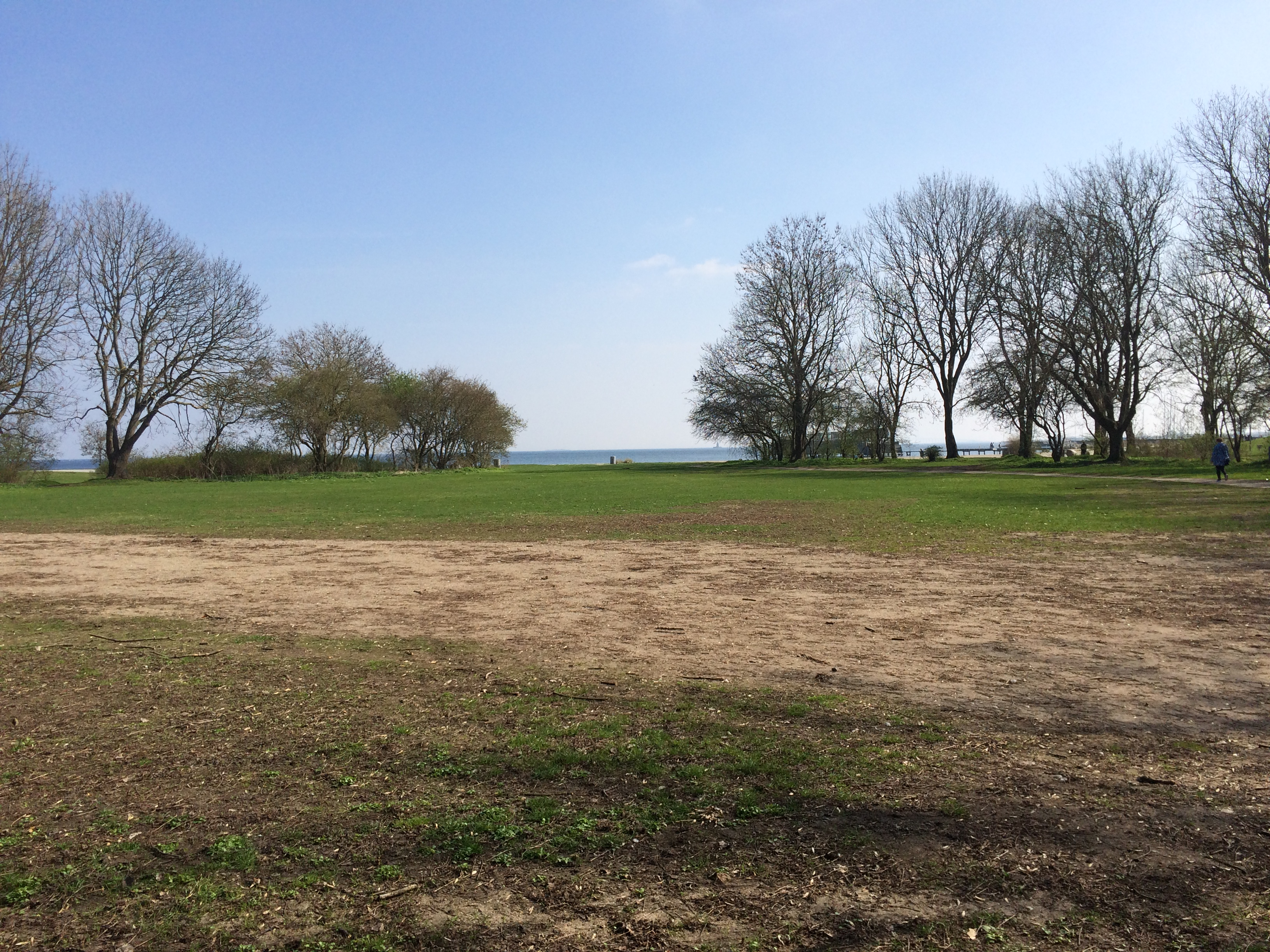 Femøren, Copenhagen in 2017